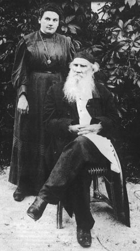 Leo Tolstoy with his daughter Alexandra Lvovna Tolstaya